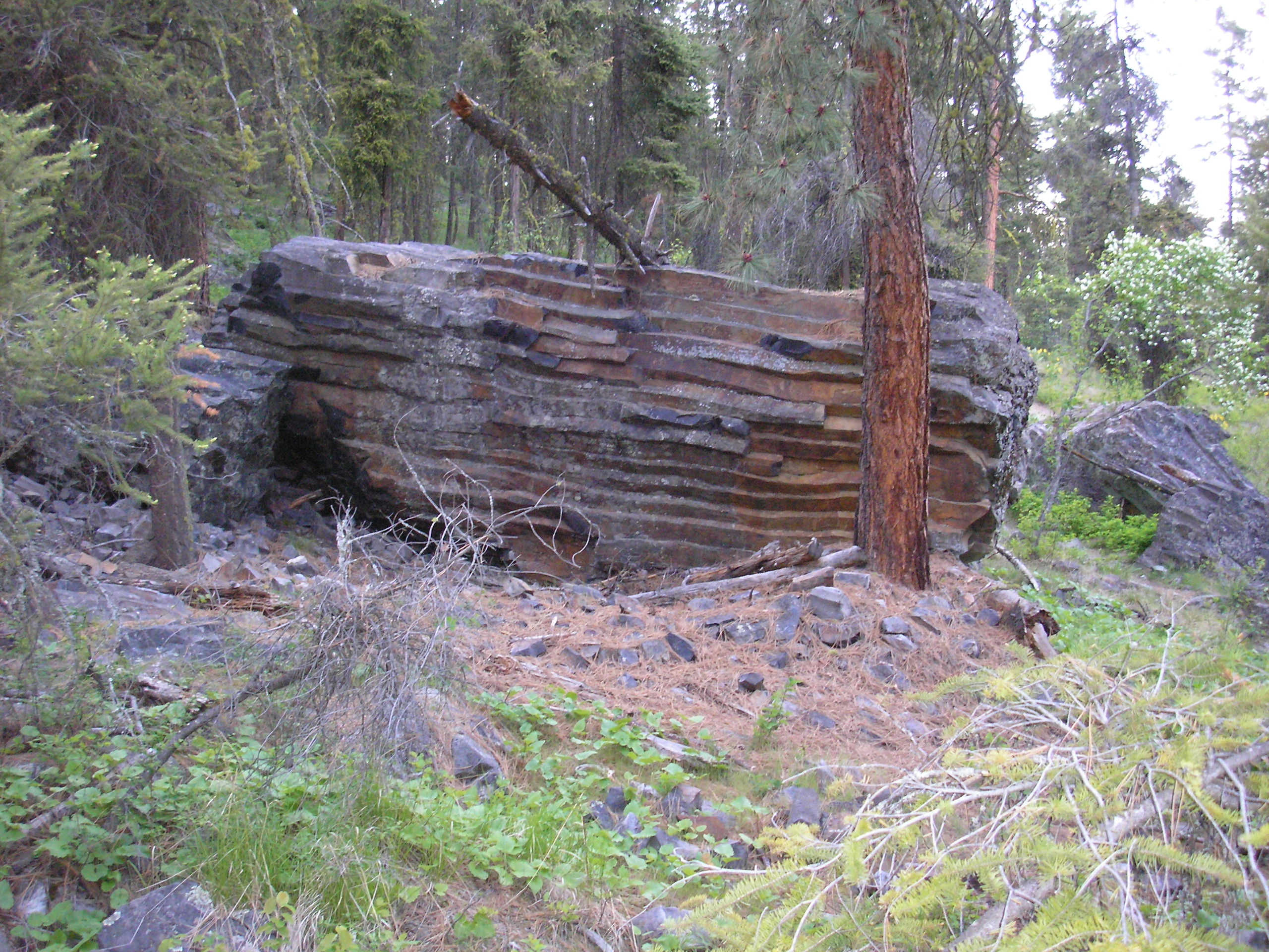 Broken columns of dacite at the base of Mount Boucherie, British Columbia, Canada.